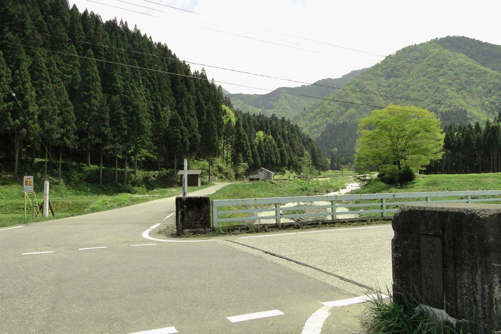 Betumata Kareisawa line.